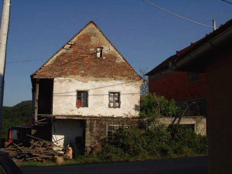 Manja Vas - Old Architecture